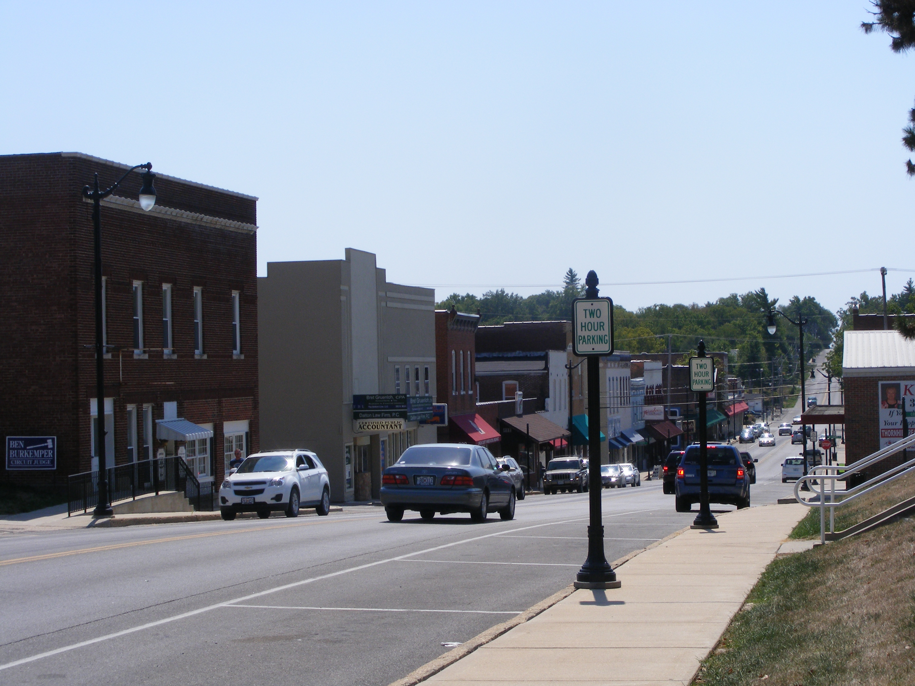 Downtown Troy Historic District